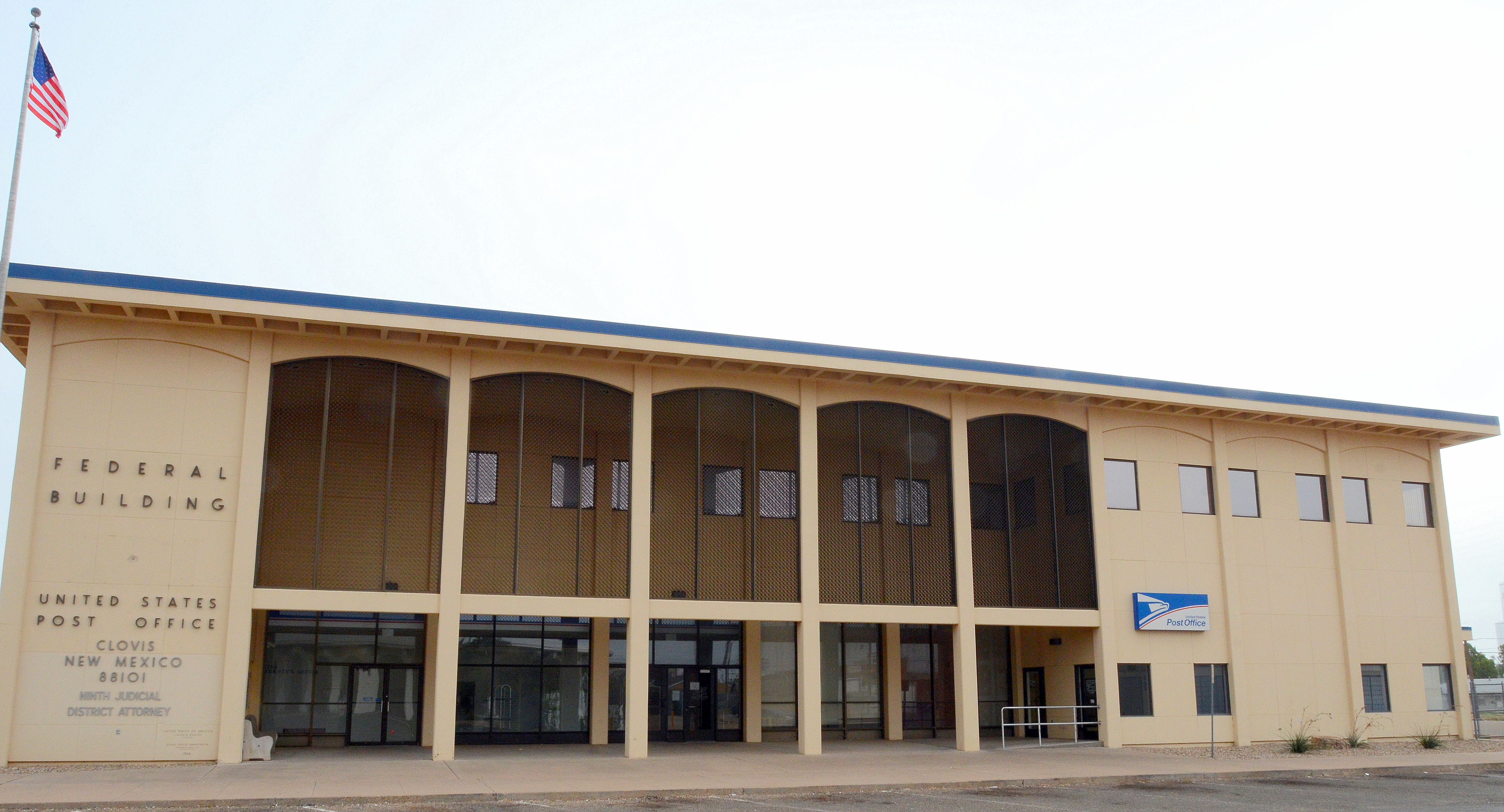 Current post office in Clovis, New Mexico, located at 417 Gidding Street